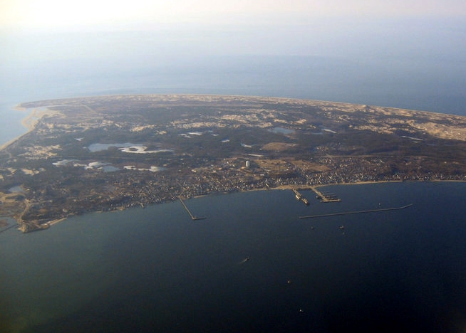 Aerial view of Provincetown at the tip of Cape Cod. (2005, Larry Strong)